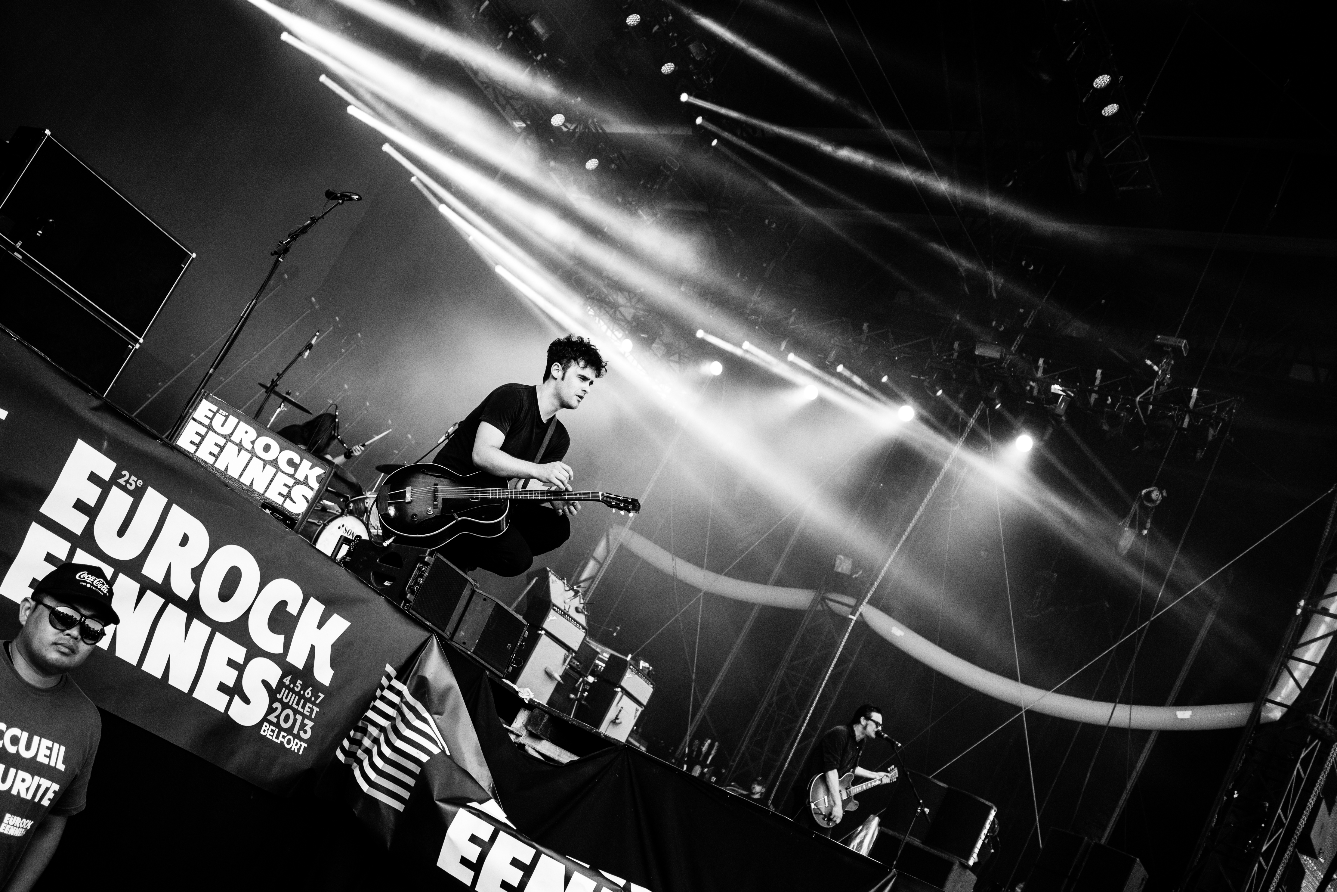 Follow me on facebook Twitter : @didyPhotography All the photographies I've made are now under CC0 (Creative Commons Zero) CC0 - learn more To the extent possible under law, Eddy BERTHIER has waived all copyright and related or neighboring rights to Black Rebel Motorcycle Club @ Eurockéennes de Belfort 2013. This work is published from: France.